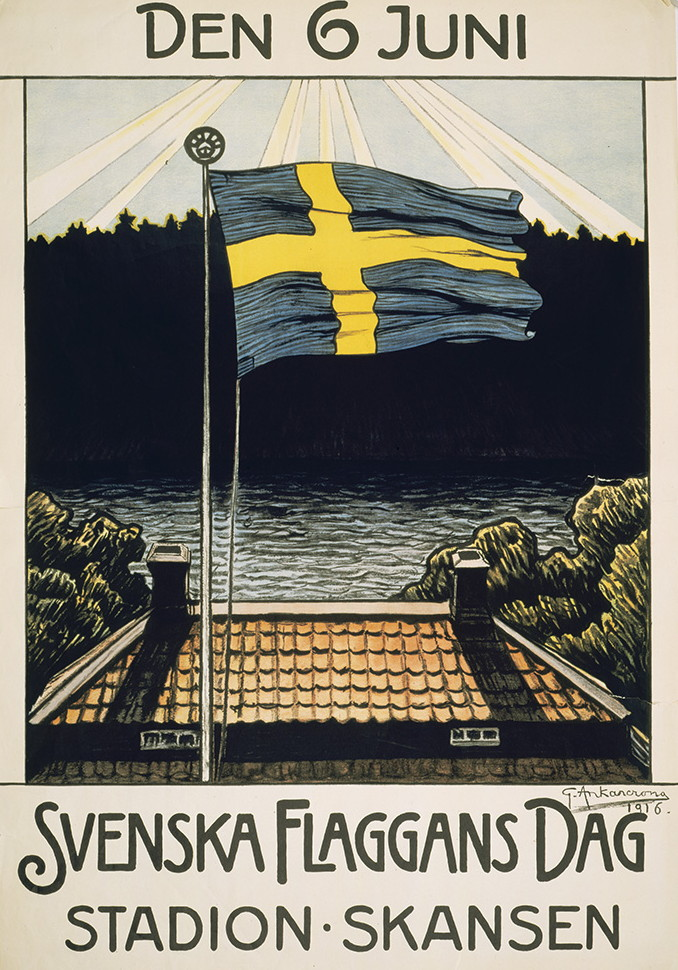 Poster. Swedish Flag Day in 1916. It was the first year that this day was celebrated. "On June 6, the Swedish Flag Day, Stadium Skansen, Hasselbacken." Original Gustaf. Ankarcrona (1869-1933) in 1916. Photo: Nordic Museum's photographic studio, Nordic Museum.